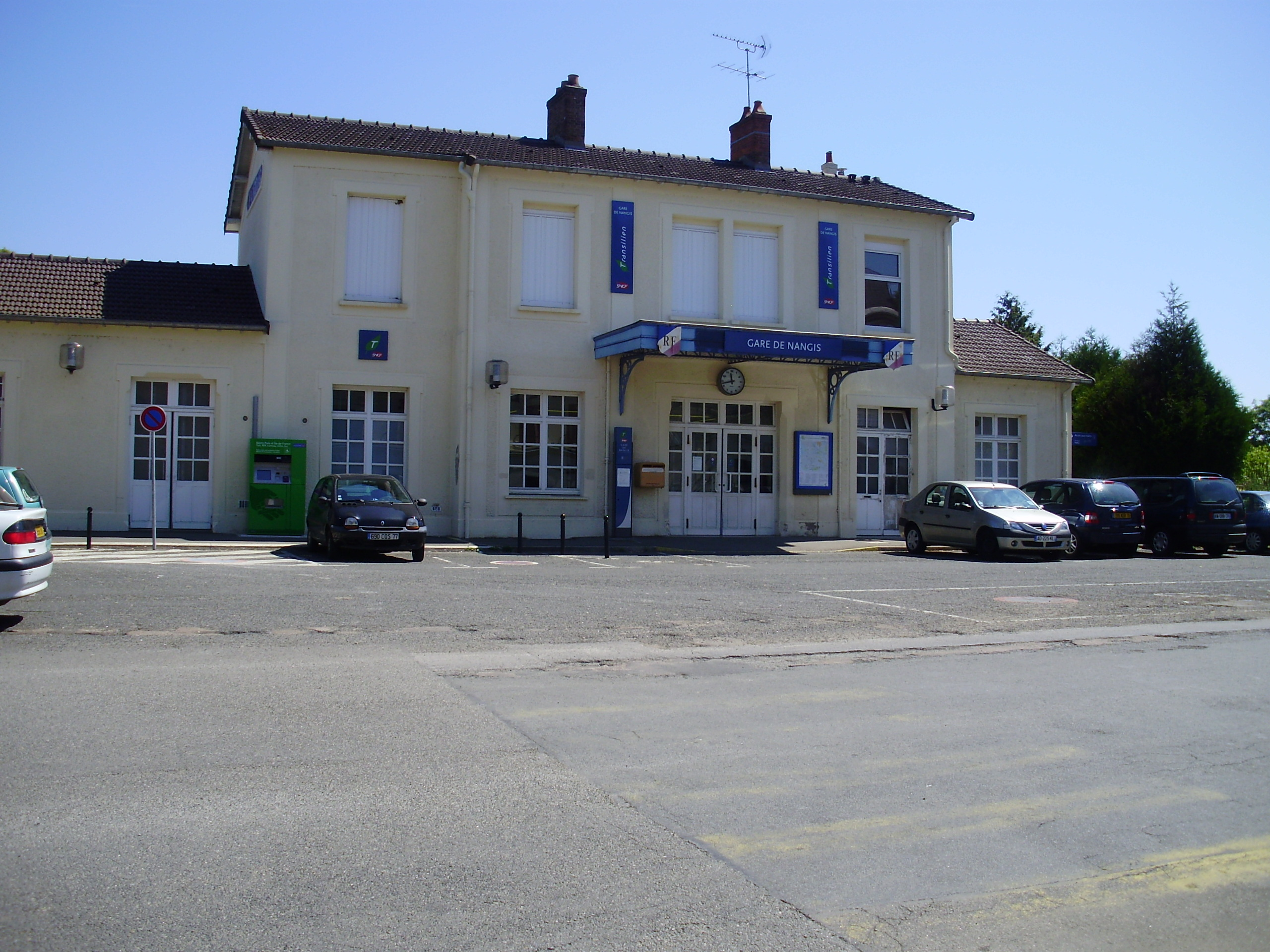 Nangis station, Seine-et-Marne, France